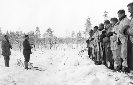 "The horror of Morocko" or lieutnant Aarne Juutilainen's company on a Christmas devotion in Kollaa December 24, 1939.